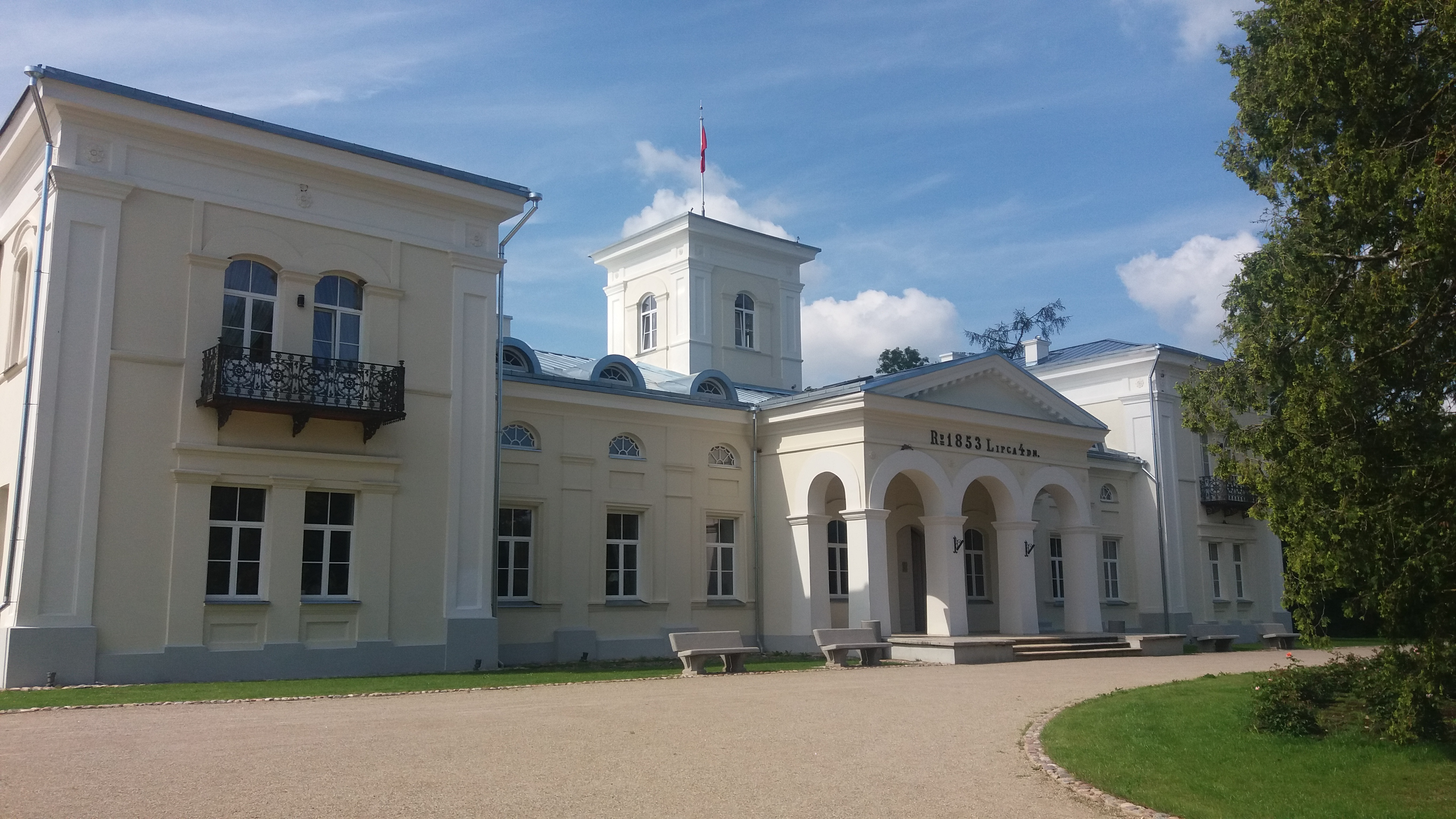 Photo of Burbiškis Manor near Anykščiai in 2016 after the reconstruction.